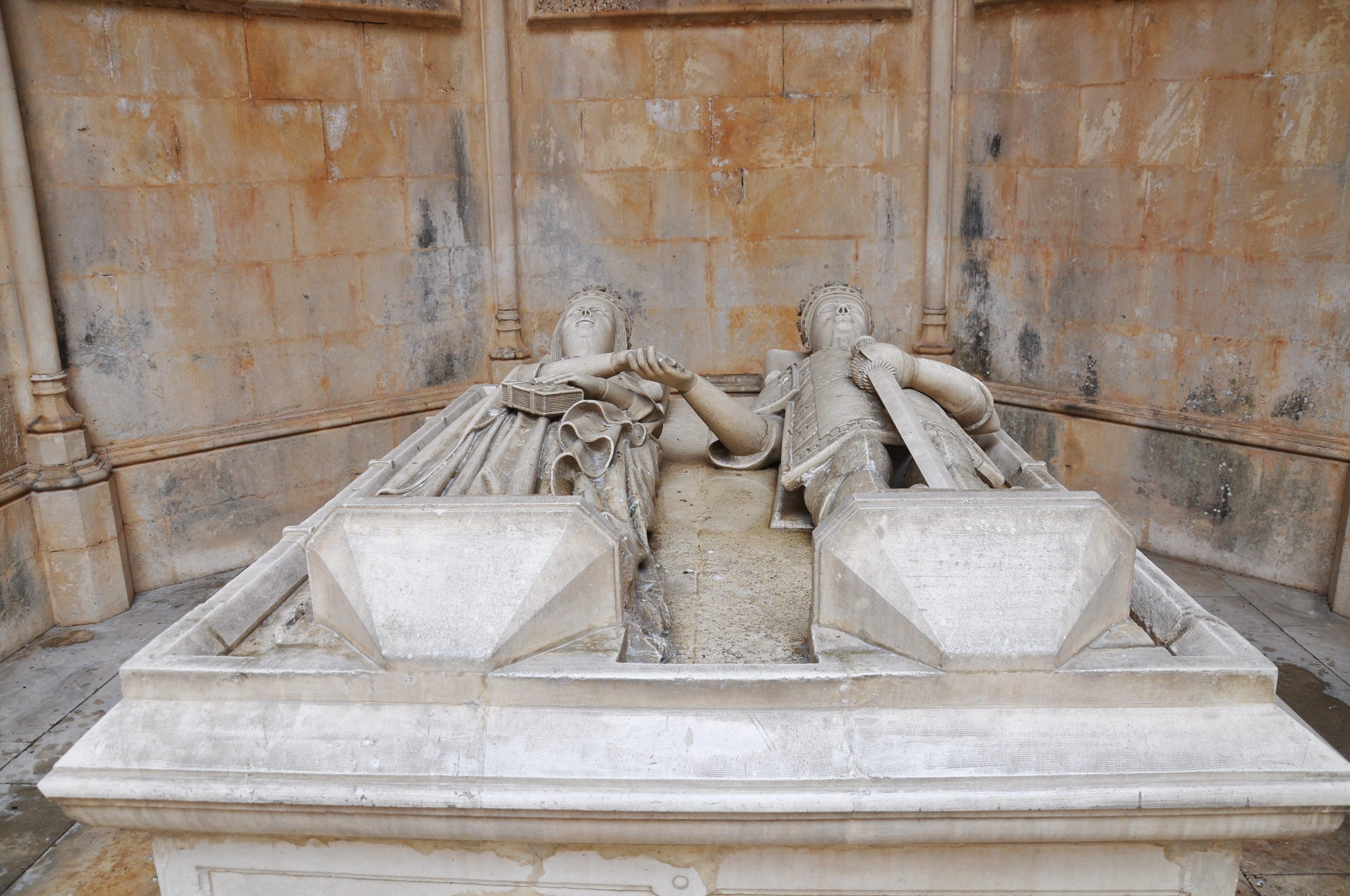 Mosteiro da Batalha Unfinished Chapels